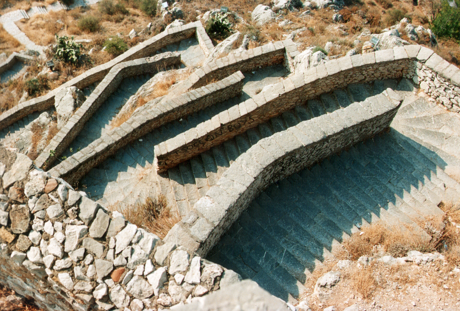 Treppe zur Palamidi-Festung in Nafplio / Stairway to Palamidi castle at Nafplio